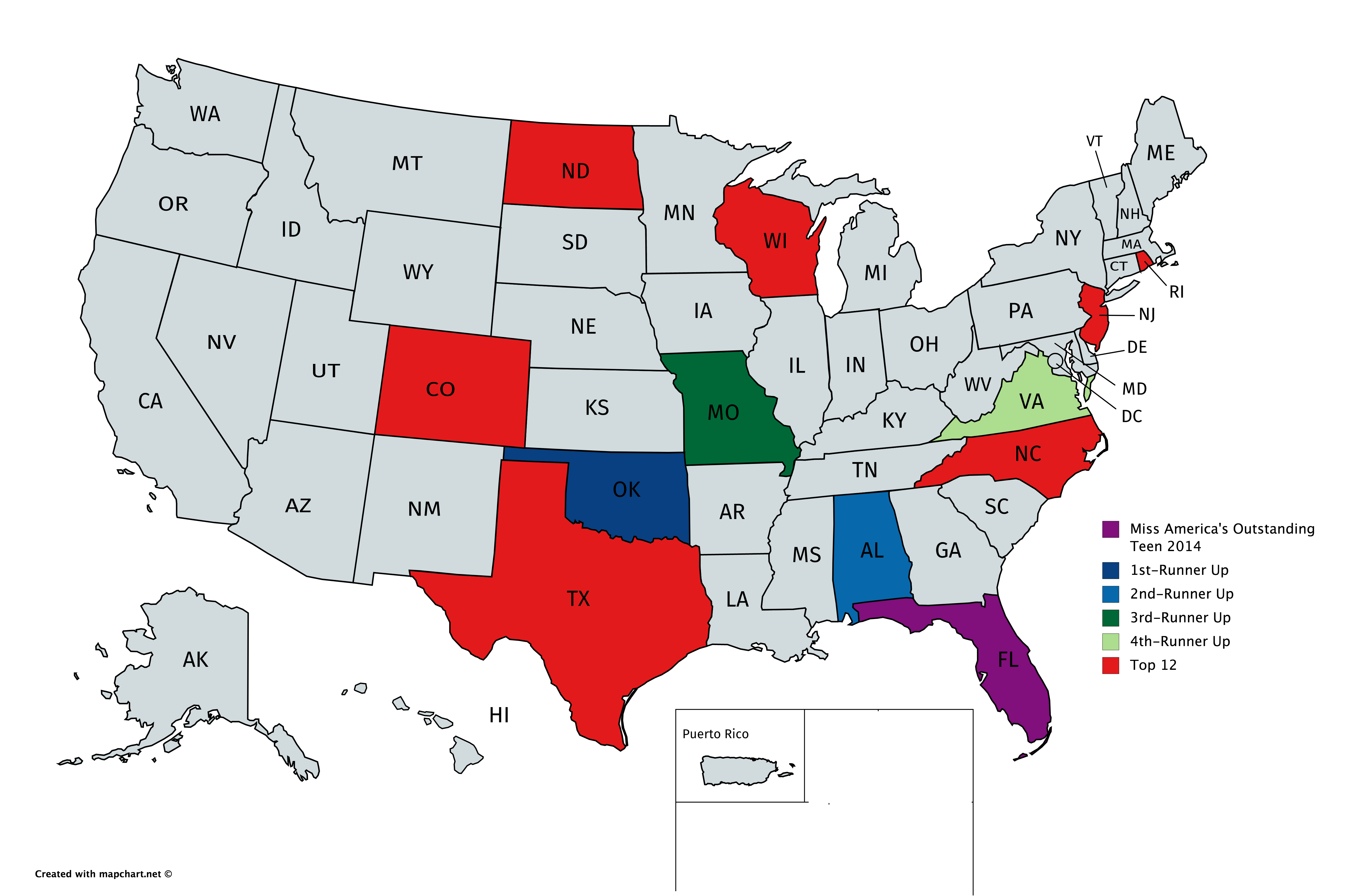 Placements of Miss America's Outstanding Teen 2014 on a map